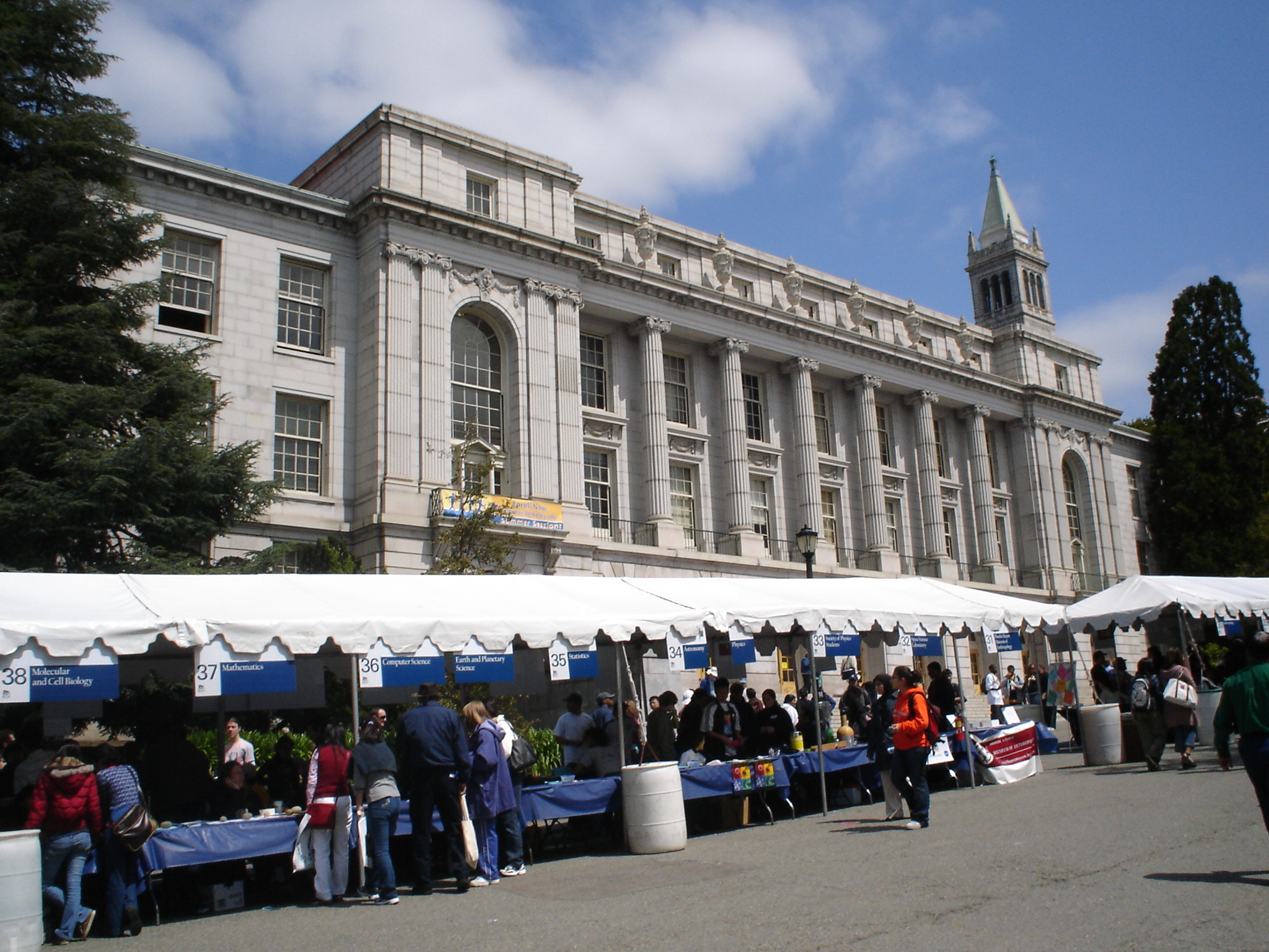 I took the picture in my trip to Cal Day 2006.